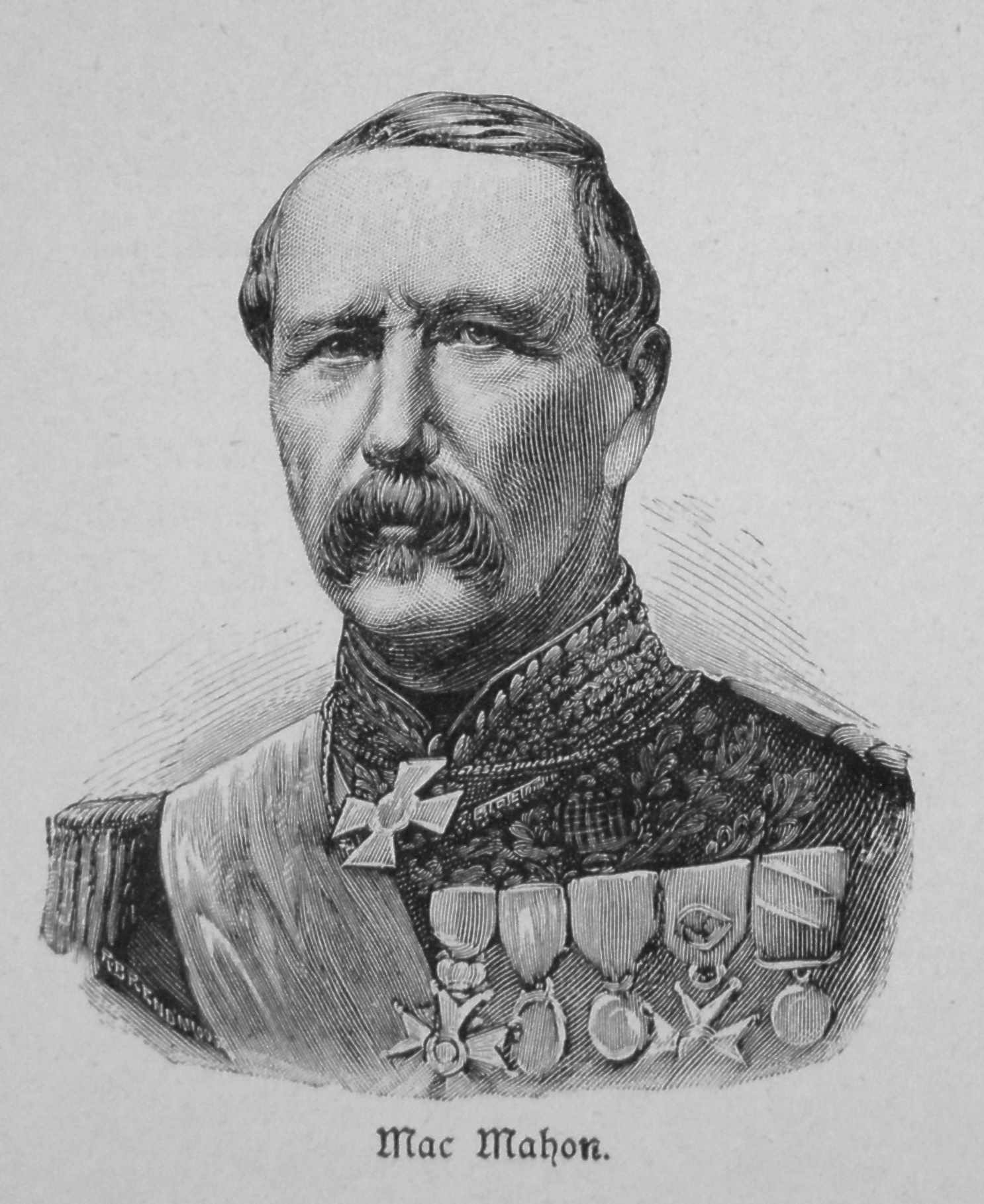 Patrice de Mac-Mahon